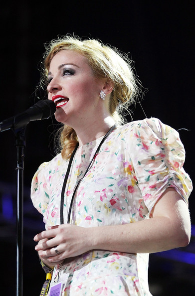 Kate Miller-Heidke at the Byron Bay Bluesfest (East Coast Blues & Roots Music Festival), April 2011